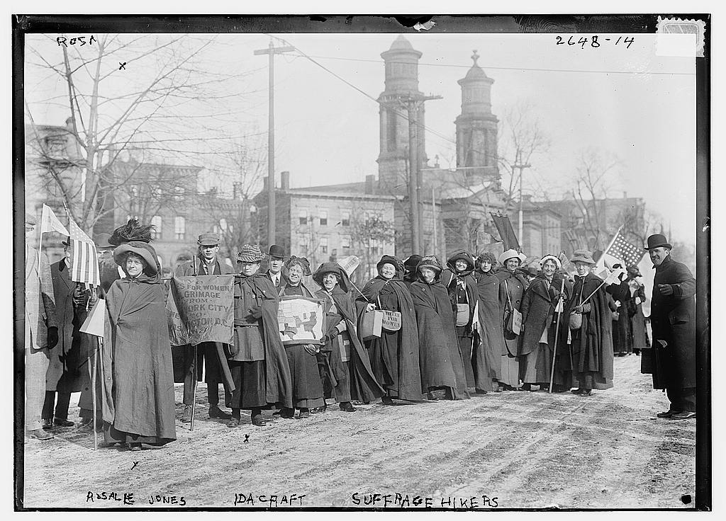 Bain News Service,, publisher. Rosalie Jones & Ida Craft - Suffrage Hikers [no date recorded on caption card] 1 negative : glass ; 5 x 7 in. or smaller. Notes: Title from unverified data provided by the Bain News Service on the negatives or caption cards. Forms part of: George Grantham Bain Collection (Library of Congress). Format: Glass negatives. Repository: Library of Congress, Prints and Photographs Division, Washington, D.C. 20540 USA, General information about the Bain Collection is available at Persistent URL: Call Number: LC-B2- 2648-14